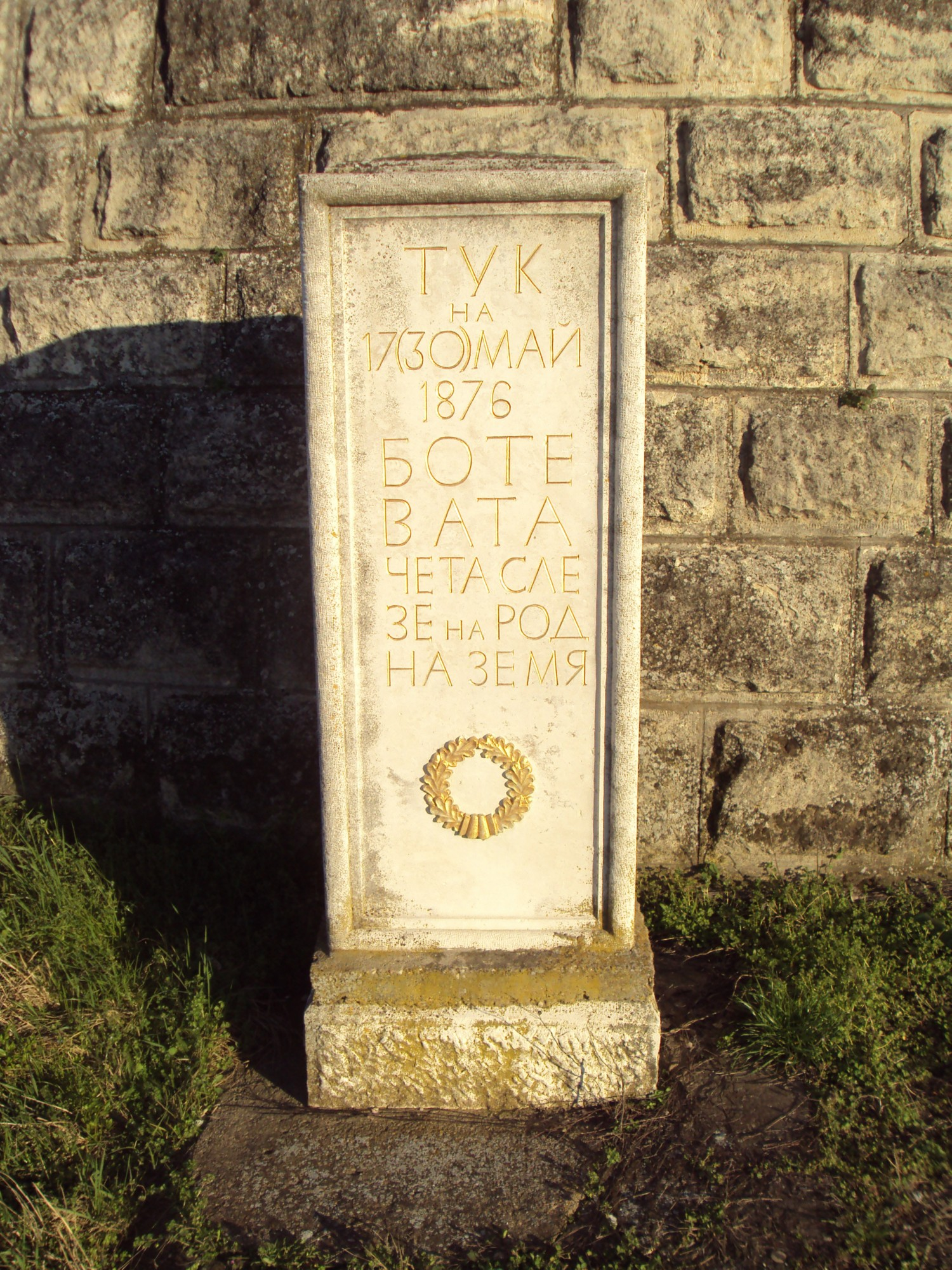 National Museum Steamship "RADETZKY", Town of Kozloduy, Bulgaria